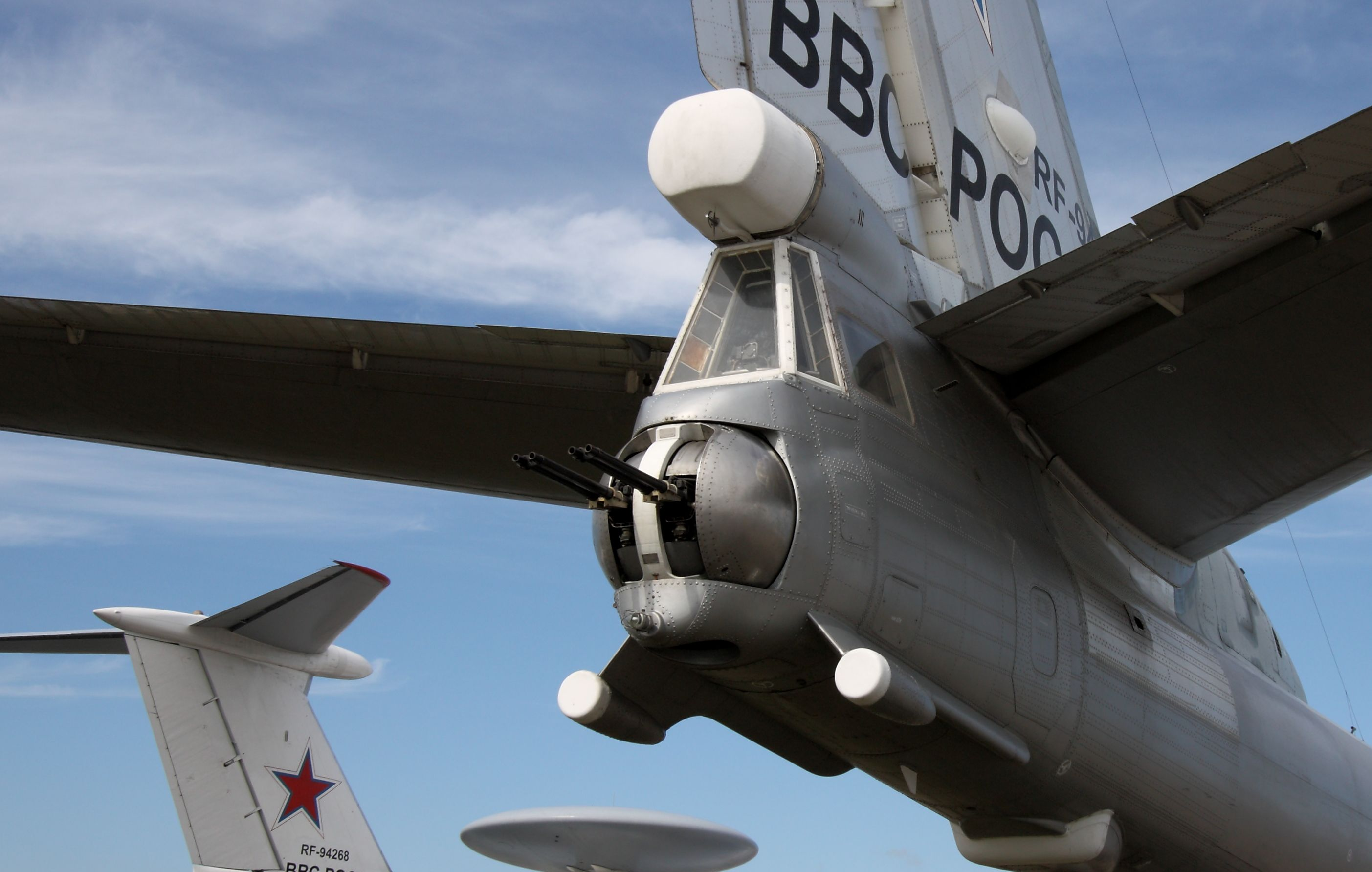 Turbo-propeller strategic bomber-rocket carrier Tupolev Tu-95MS Bear (The international aerospace salon MAKS-2011)